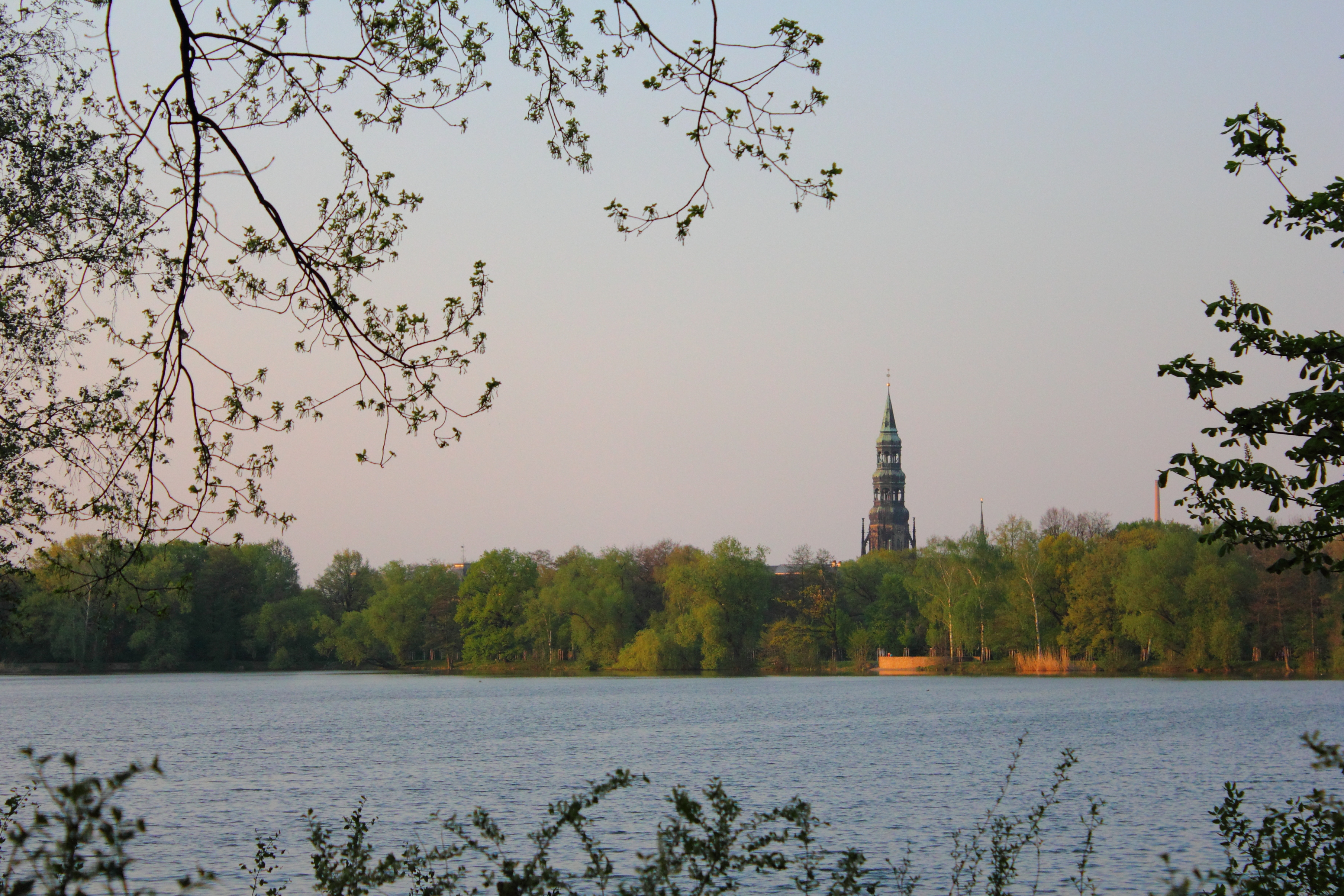 Lake and park in Zwickau, Saxony